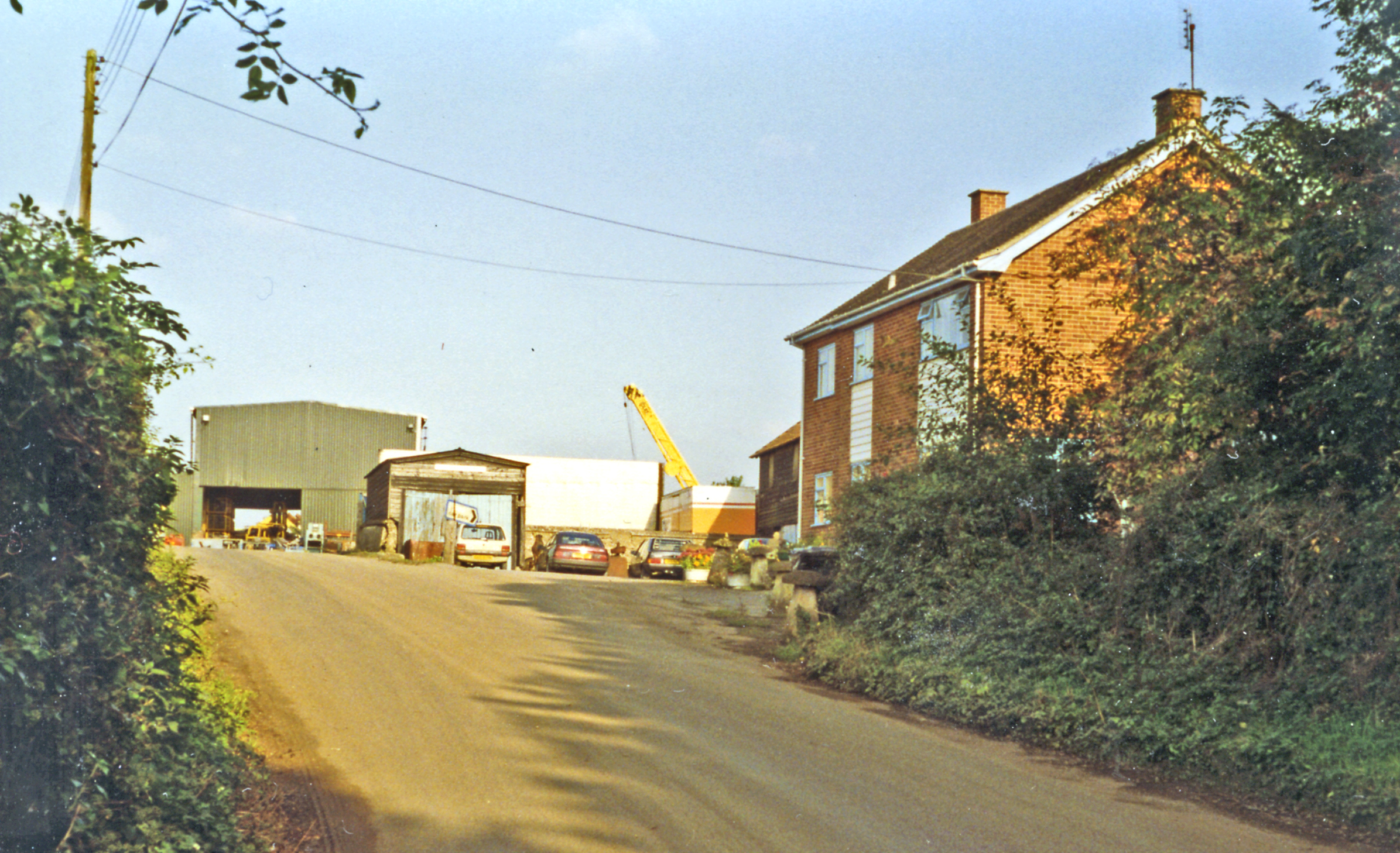 Hurstbourne station sire/remains, 1993. View eastwards up a lane off the former A34, with the ex-LSW London - Salisbury - Exeter main line up on the right, Hurstbourne viaduct being a few hundred yards weswards, behind. Hurstbourne station was closed 6/4/64.